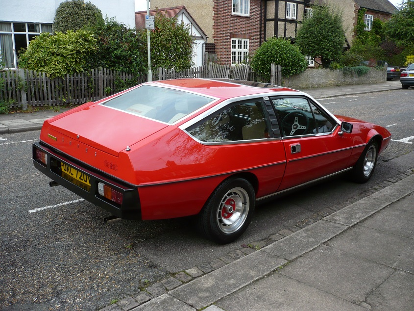 Lotus Éclat S1